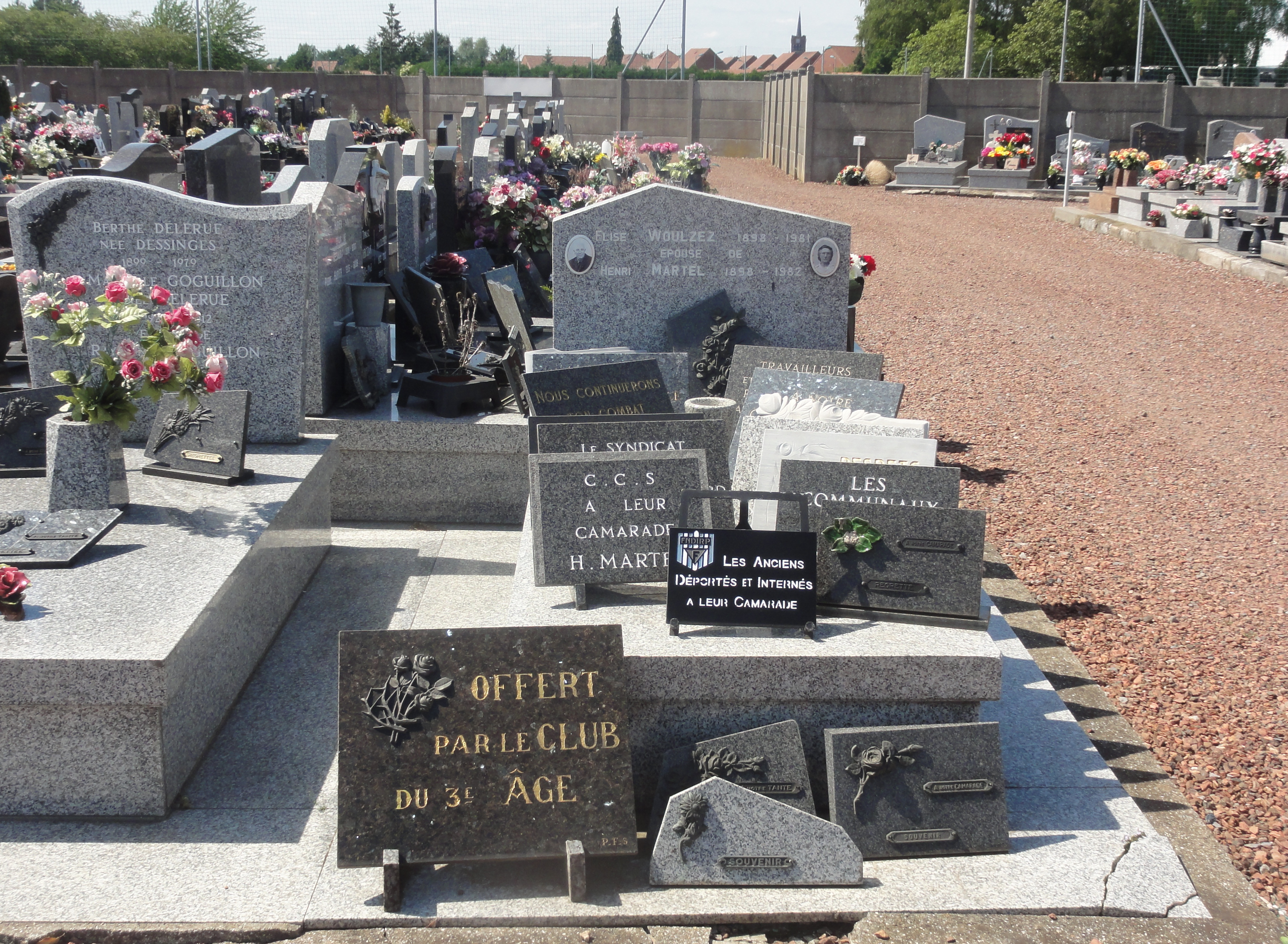 Depicted place: Sin-le-Noble Communal Cemetery Grave of Q3131583